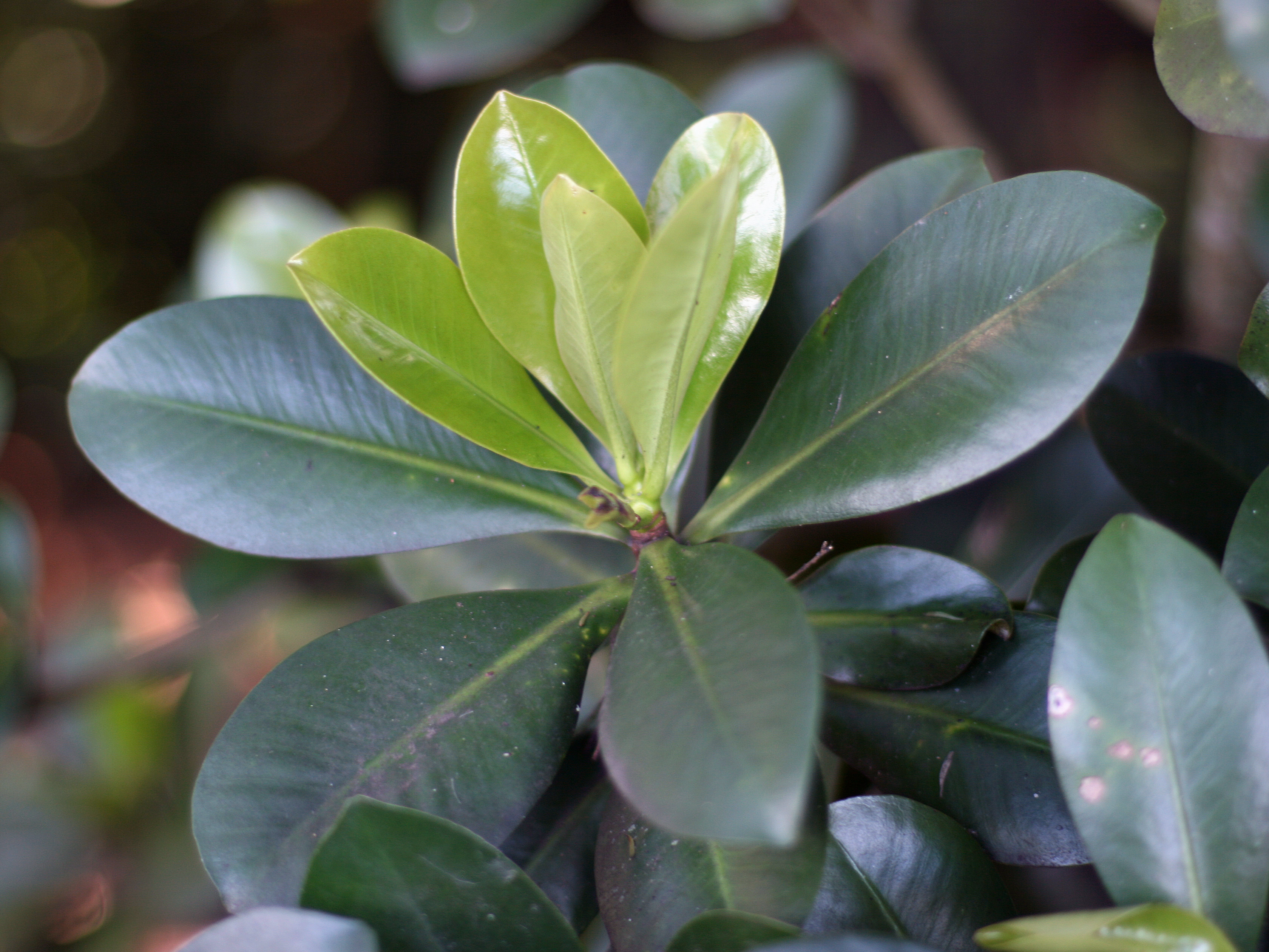 New leaves of Elingamita johnsonii, the sole species in the genus Elingamita, endemic to the Three Kings Islands, northern New Zealand. The dark green leaves, 10 to 18 cm long and 4 to 9 cm wide, have a satiny gloss.